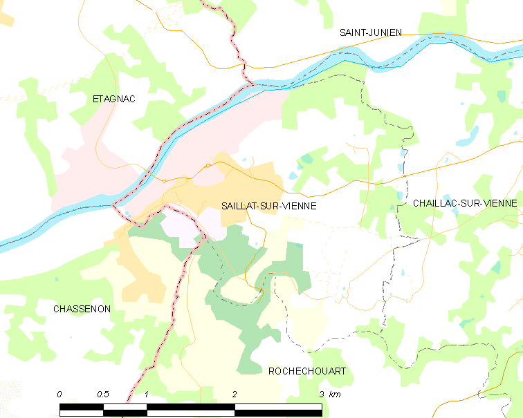 Map of French municipality Saillat-sur-Vienne